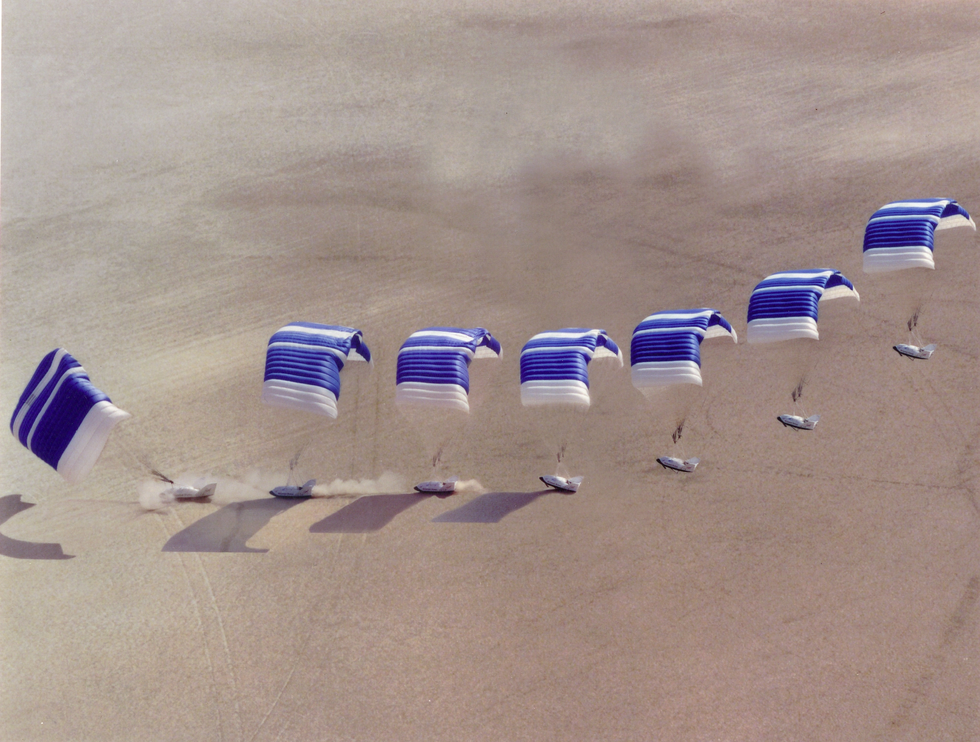 Actual photo showing the approach and landing of an X-38 prototype using a mechanically actuated parafoil.